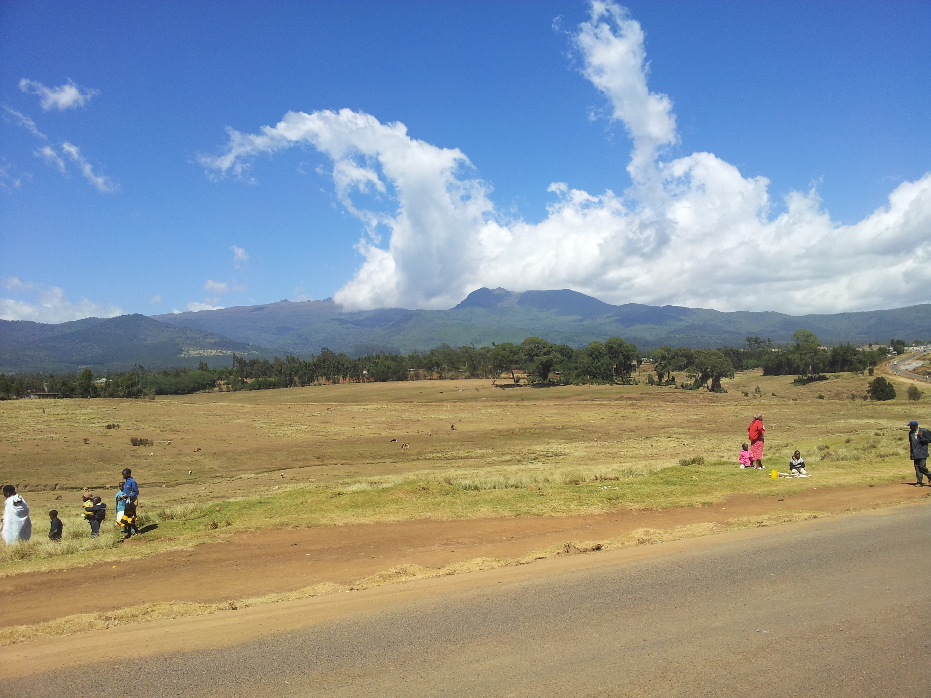 A nice skyline of the Aberdare Ranges